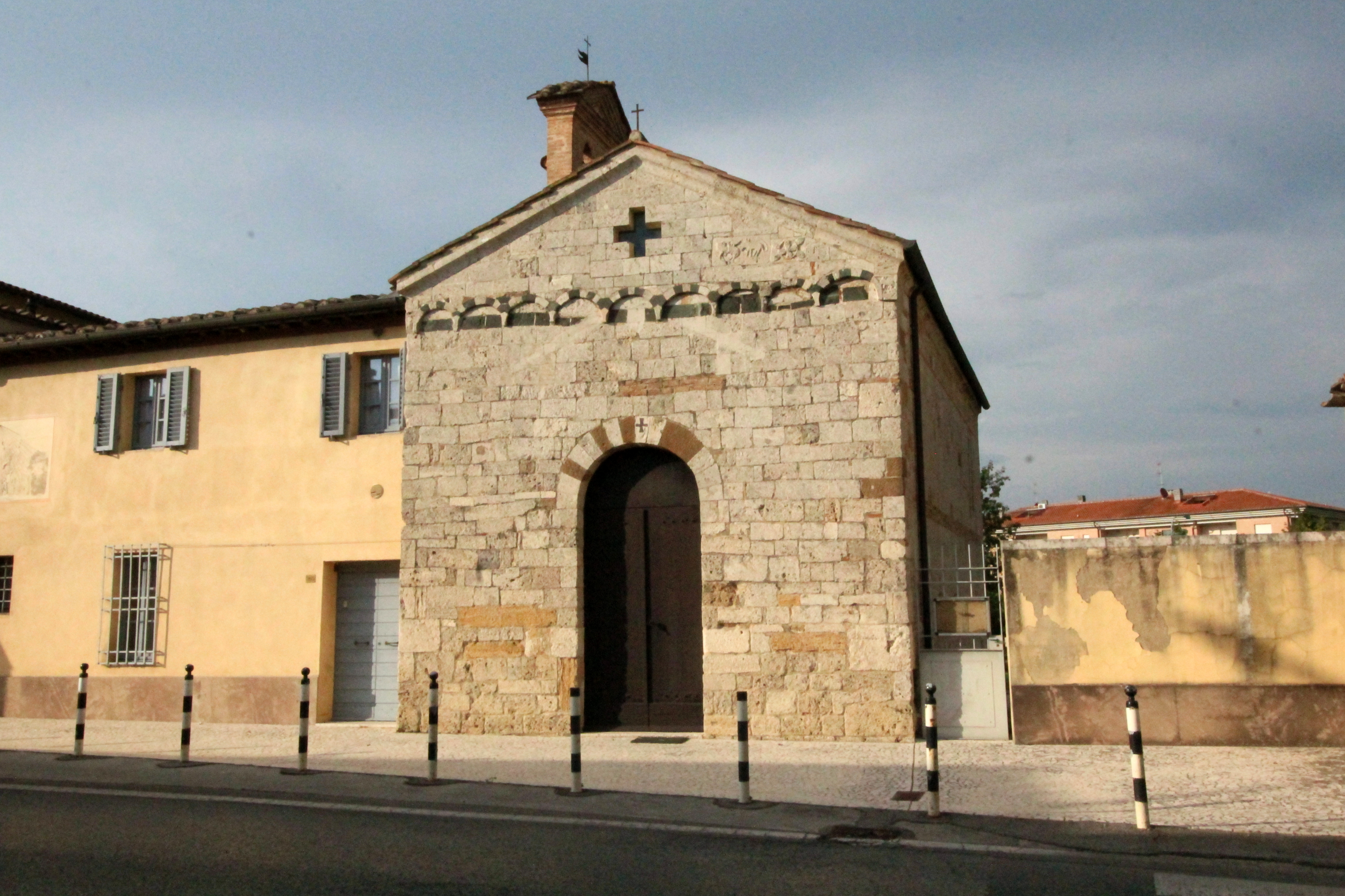 Church Sant’Ilario a Isola d’Arbia, hamlet of Siena, the Tuscany region, Italy.